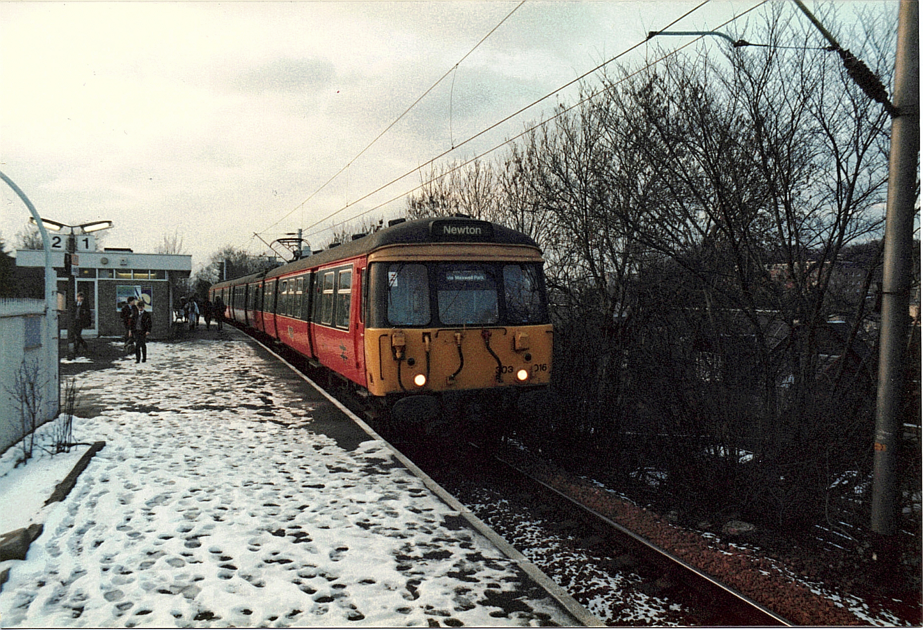 Refurbished Class 303 016 at Langside on a Glasgow Central to Newton working.